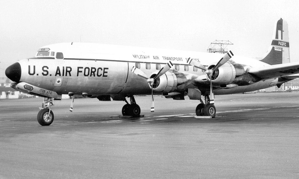 Douglas C-118A Liftmaster 53-3268 1705 ATG MATS delivered to USAF May 2, 1955. WFU and stored MASDC Feb 1975.